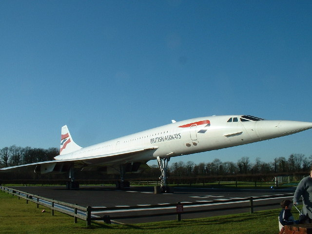 British Airways Concorde, Manchester Aviation Viewing Park. British Airways Concorde, G-BOAC, is a permanent exhibit at the Aviation Viewing Park, adjacent to R1(05L/23R, formerly 06L/24R), Manchester International Airport.